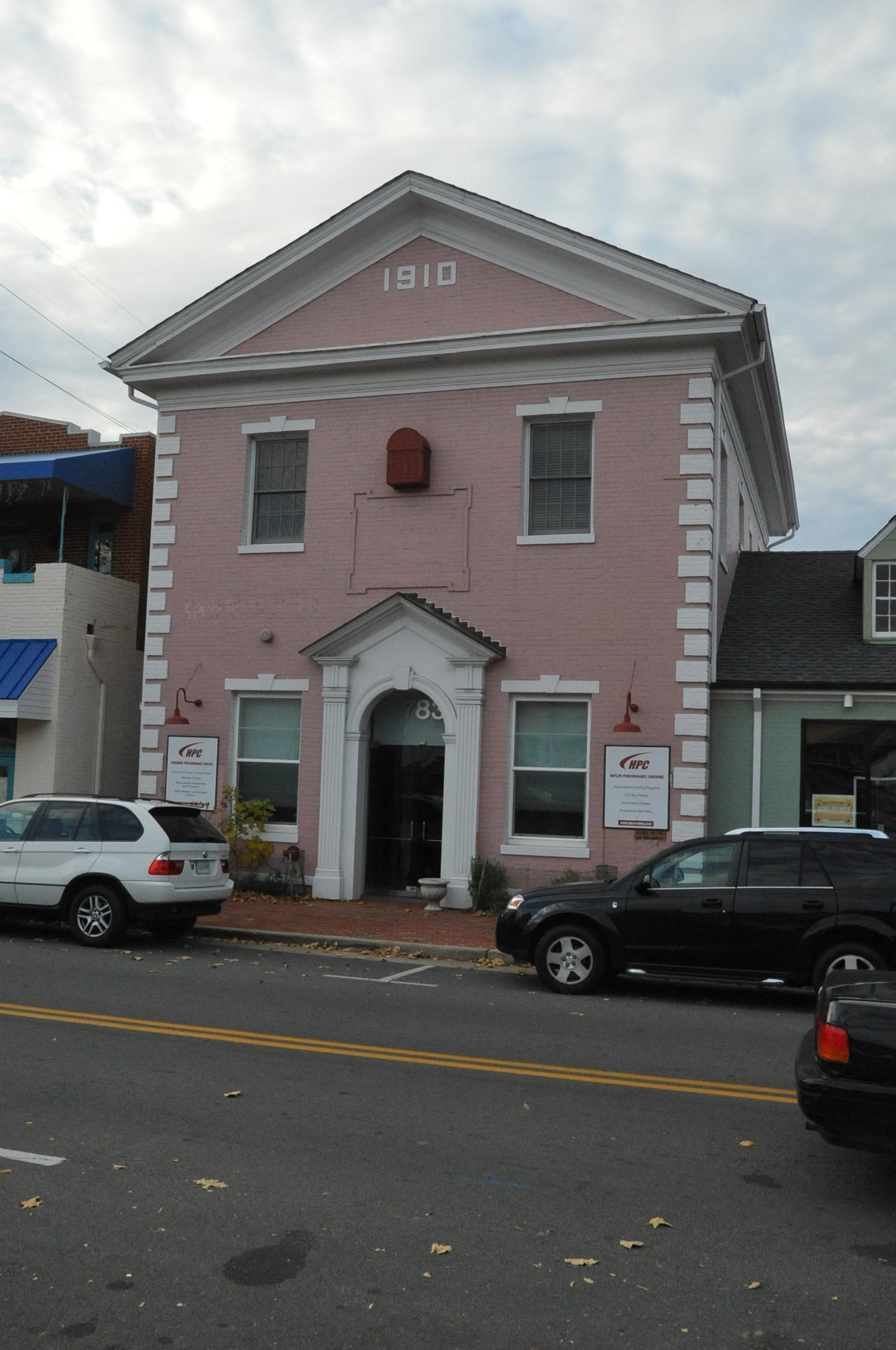 1910 GRAHAM JAMES BUILDING IN THE HERNDON HISTORIC ON STATION AVENUE